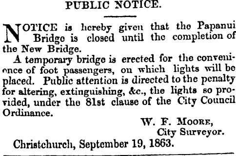 Advertisement in The Press advising of the closure of the Papanui Bridge.